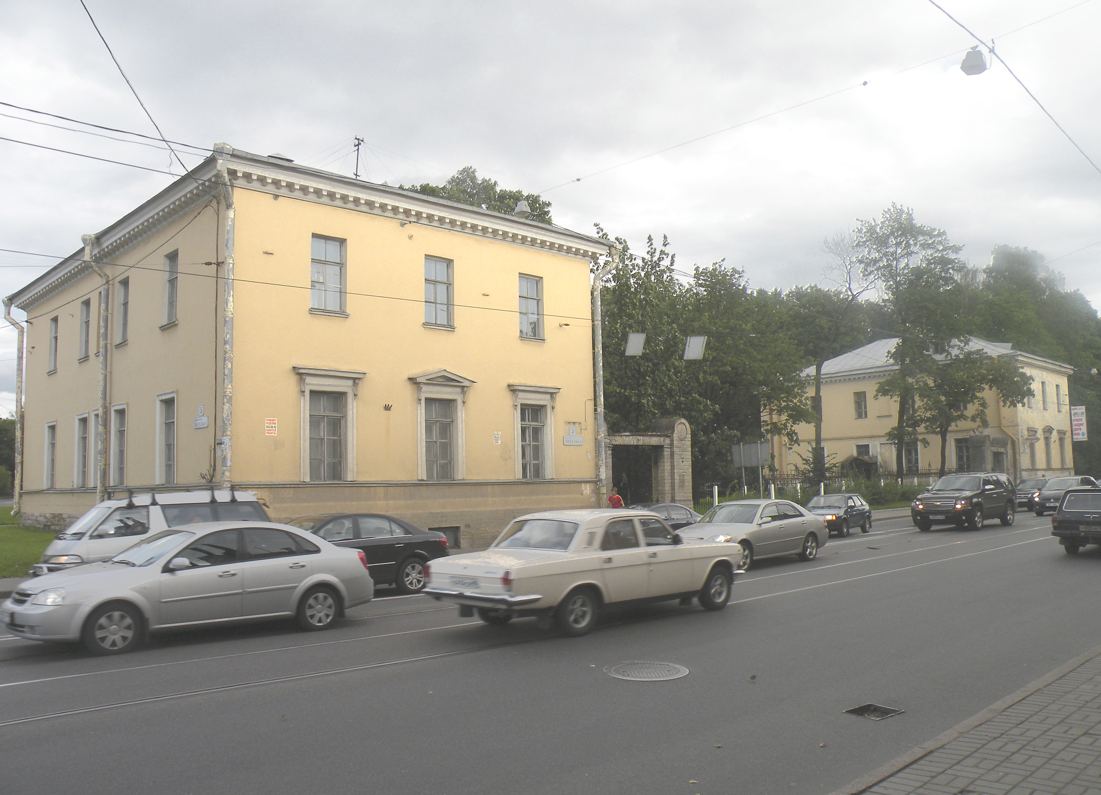 Orlovo-Novosiltsevksy almshouse buildings (1834-41, arch. J. Charlemagne).